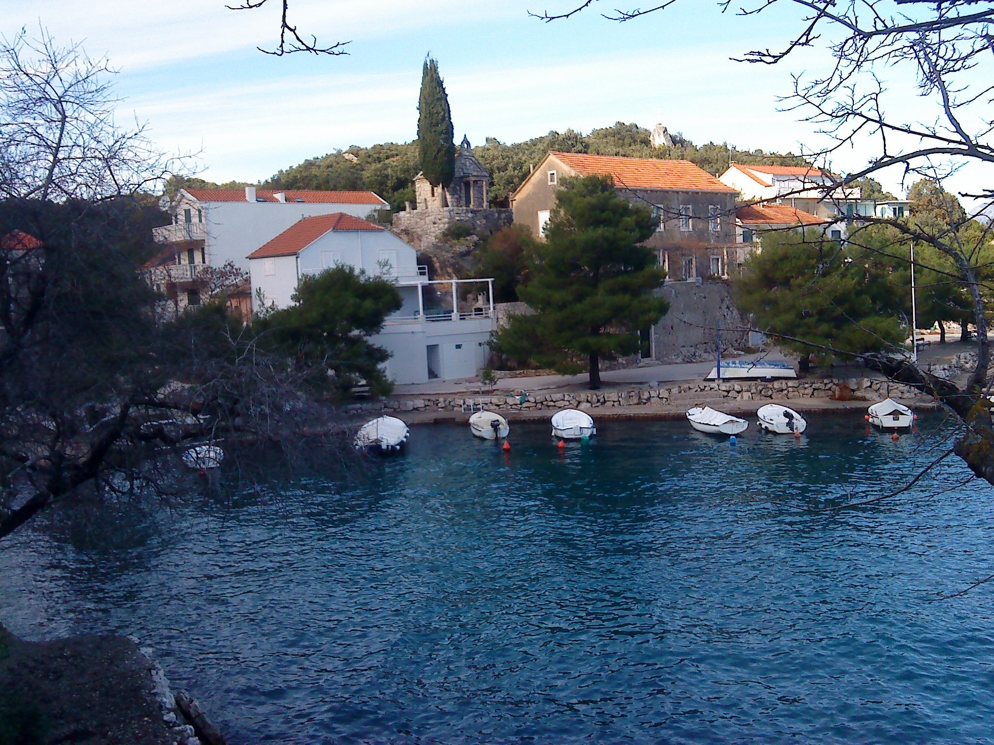 Village of Crkvice, Pelješac